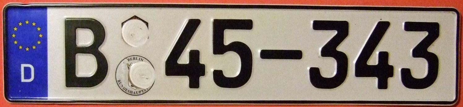 French Consulate license plate issued in Berlin Germany. The code "45" denotes France with the serial number following. Diplomatic plates would have a "0" prefix before the country code of "45" for France.